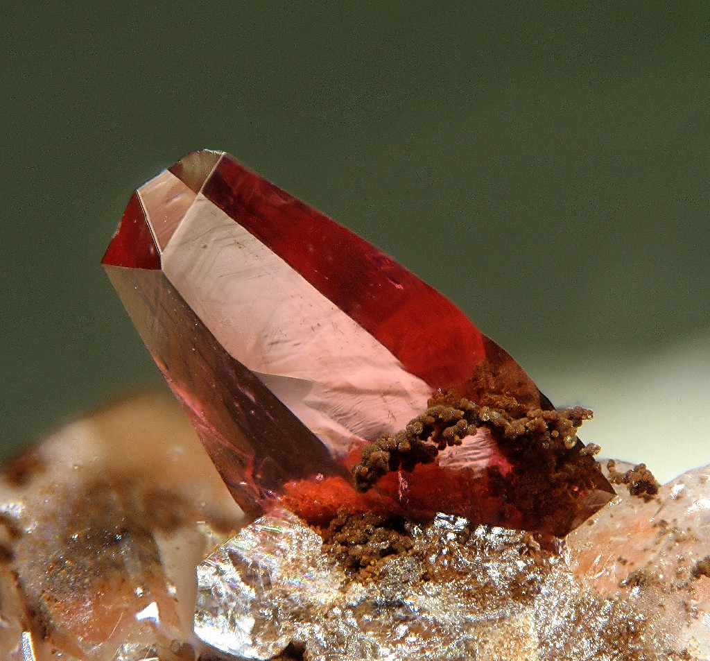 Roselite Locality: Bou Azzer, Bou Azzer District, Tazenakht, Ouarzazate Province, Souss-Massa-Draâ Region, Morocco (Locality at ) Picture width 2 mm. Collection and photograph Christian Rewitzer